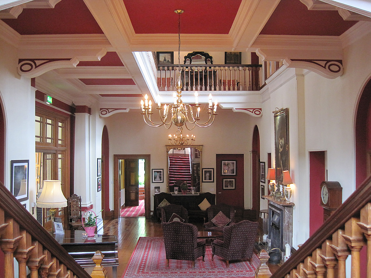 Tinakilly House Inside View View from the Grand Stairway across the front sitting room. The front door is to the left.